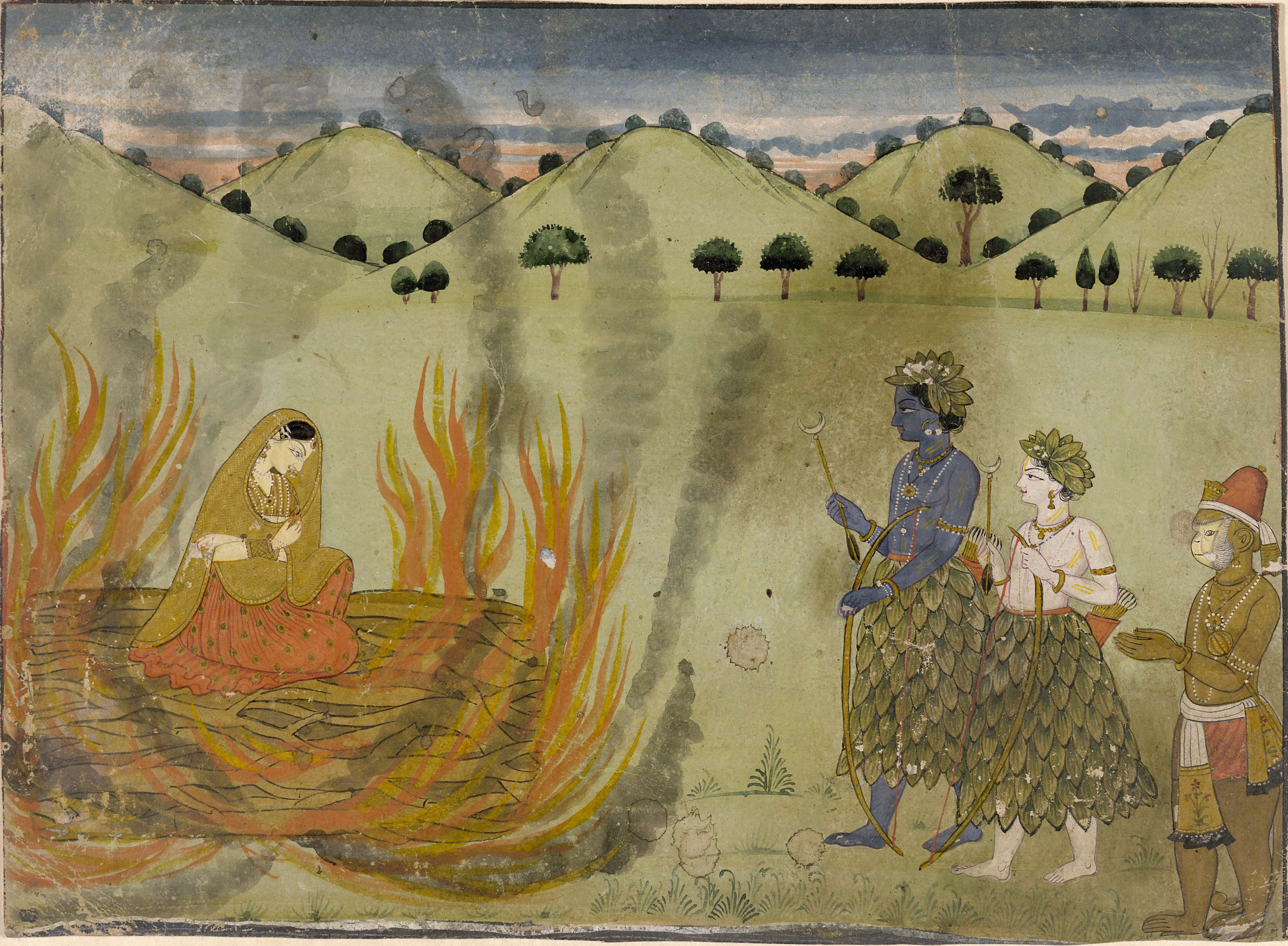 A scene from the Ramayana: Sīta undergoing the ordeal by fire watched by Rāma, Lakṣmaṇa and Hanuman.